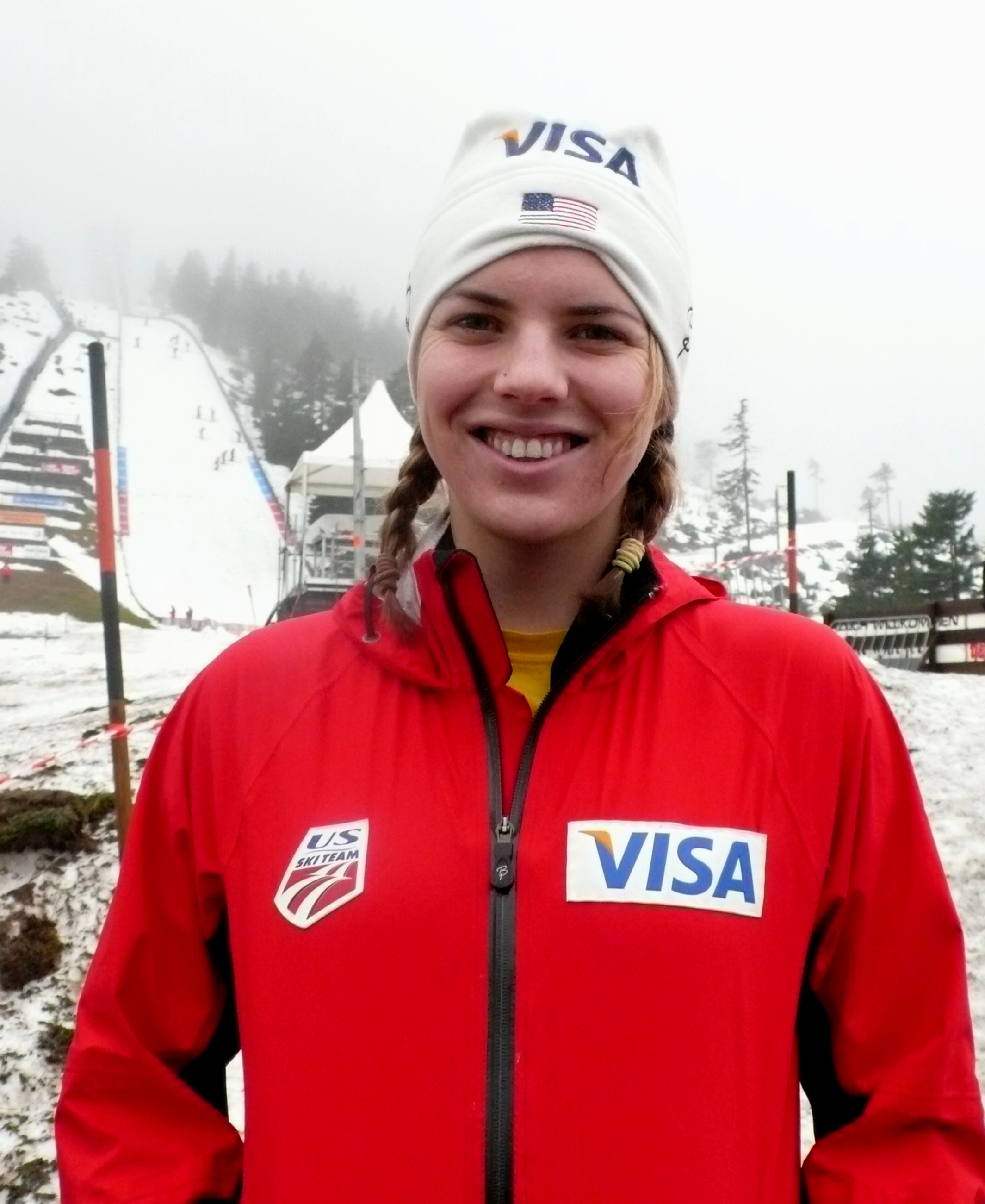 Abby Hughes